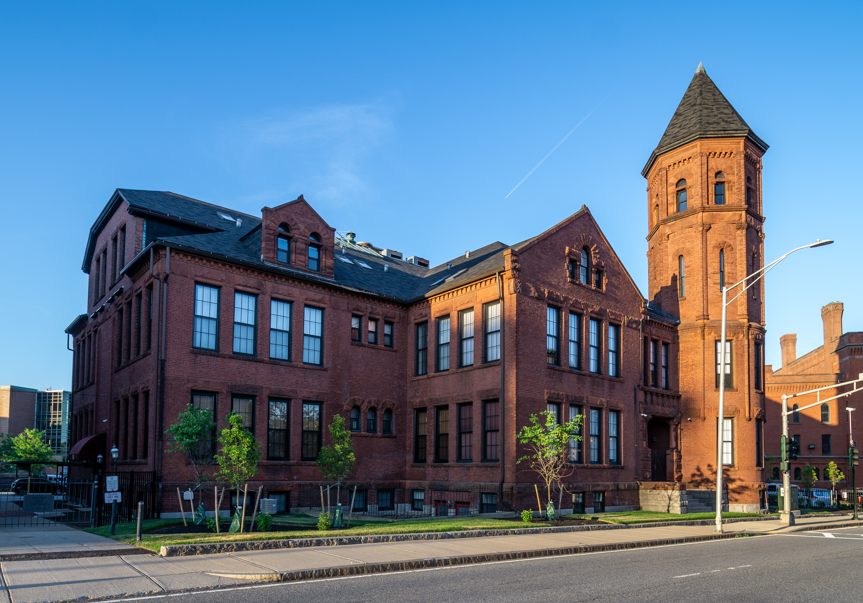 Former North High School, 1889 building. 50 Salisbury St, Worcester MA